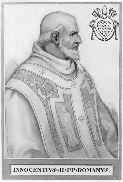 This illustration is from The Lives and Times of the Popes by Chevalier Artaud de Montor, New York: The Catholic Publication Society of America, 1911. It was originally published in 1842. The illustration is based on Pontificum Romanorum effigies by Dominicus Basa, Giovanni Battista Cavalieri (1580).